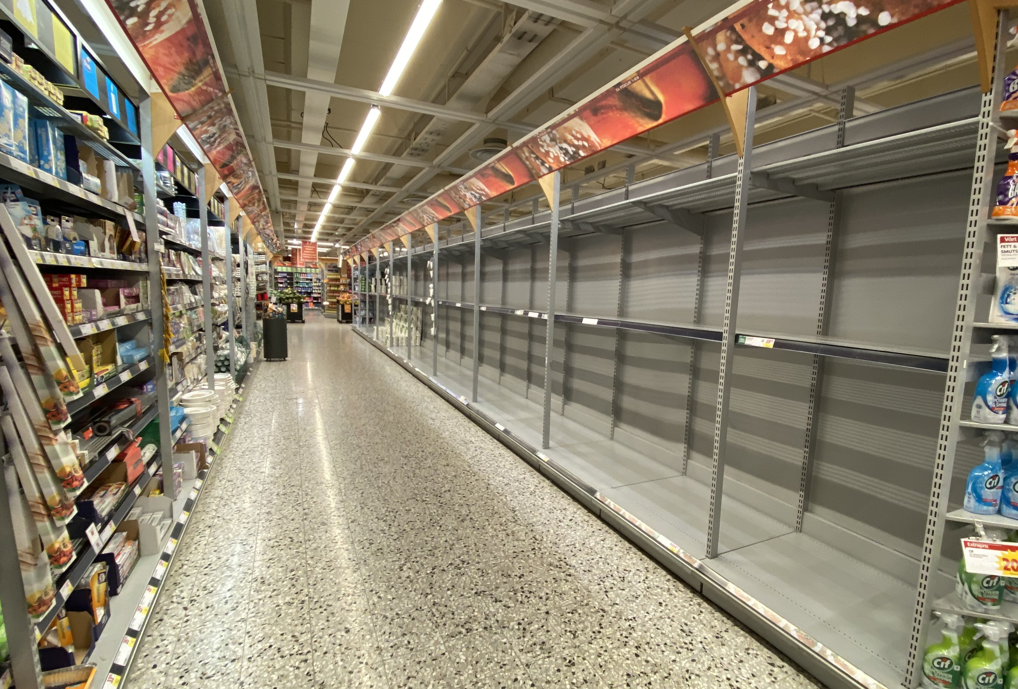 Empty shelves in a normally well-stocked supermarket in downtown Gothenburg, Sweden. This isle would normally stock toilet paper, and is empty following panic buying during the 2020 coronavirus pandemic.